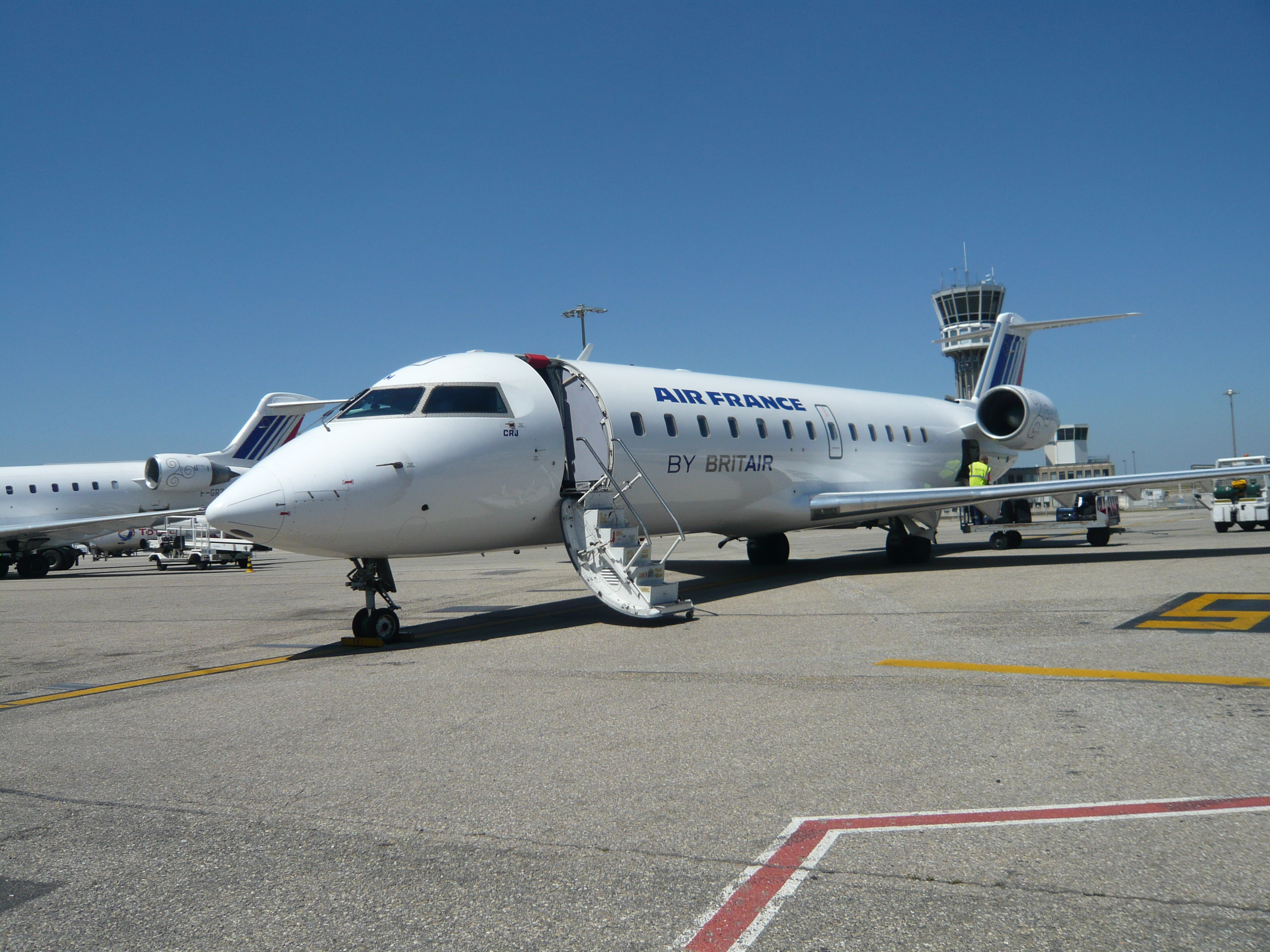 A Bombardier CRJ 100 from Brit Air/Air France